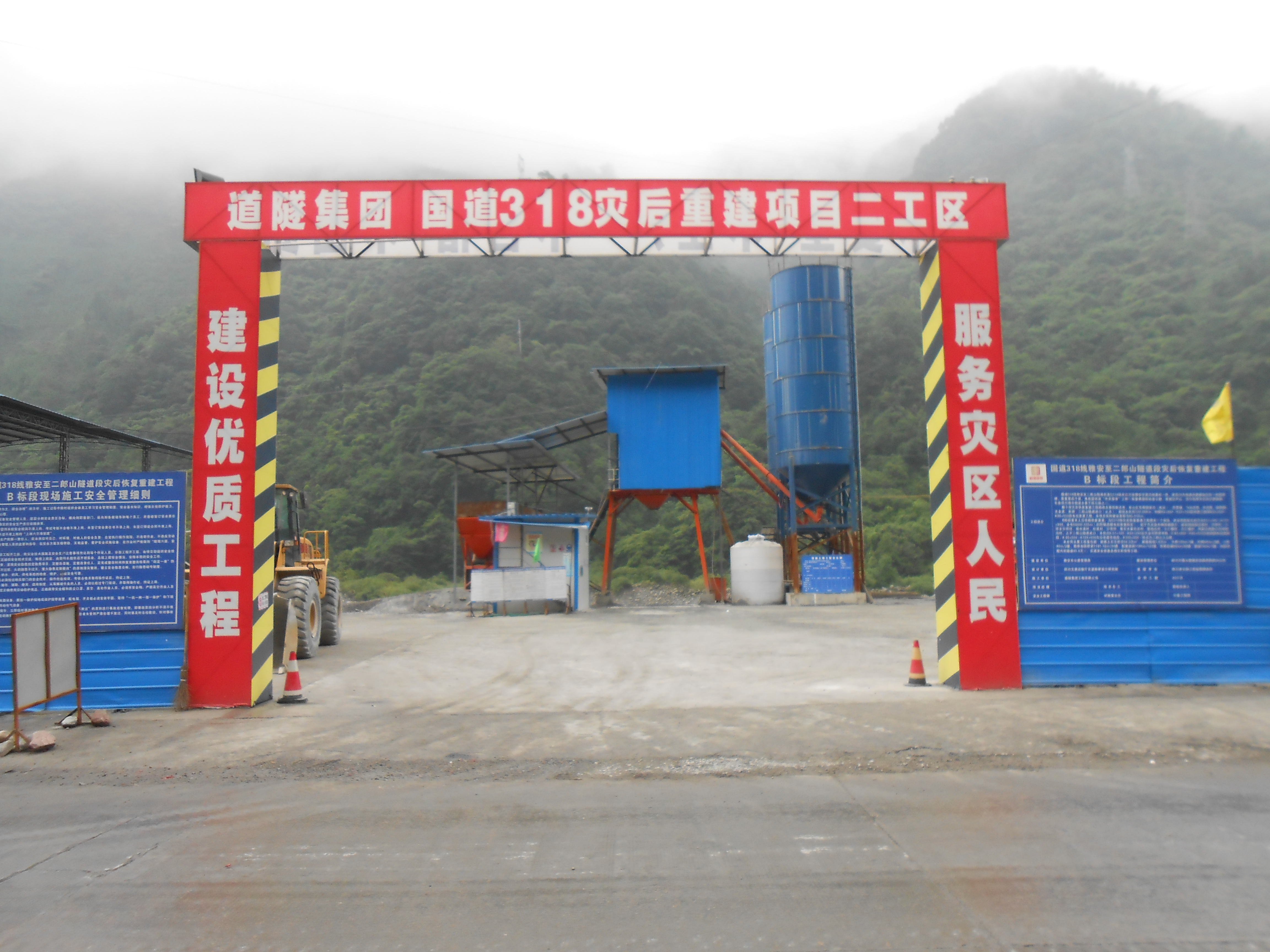 Road construction facility on National Highway 318